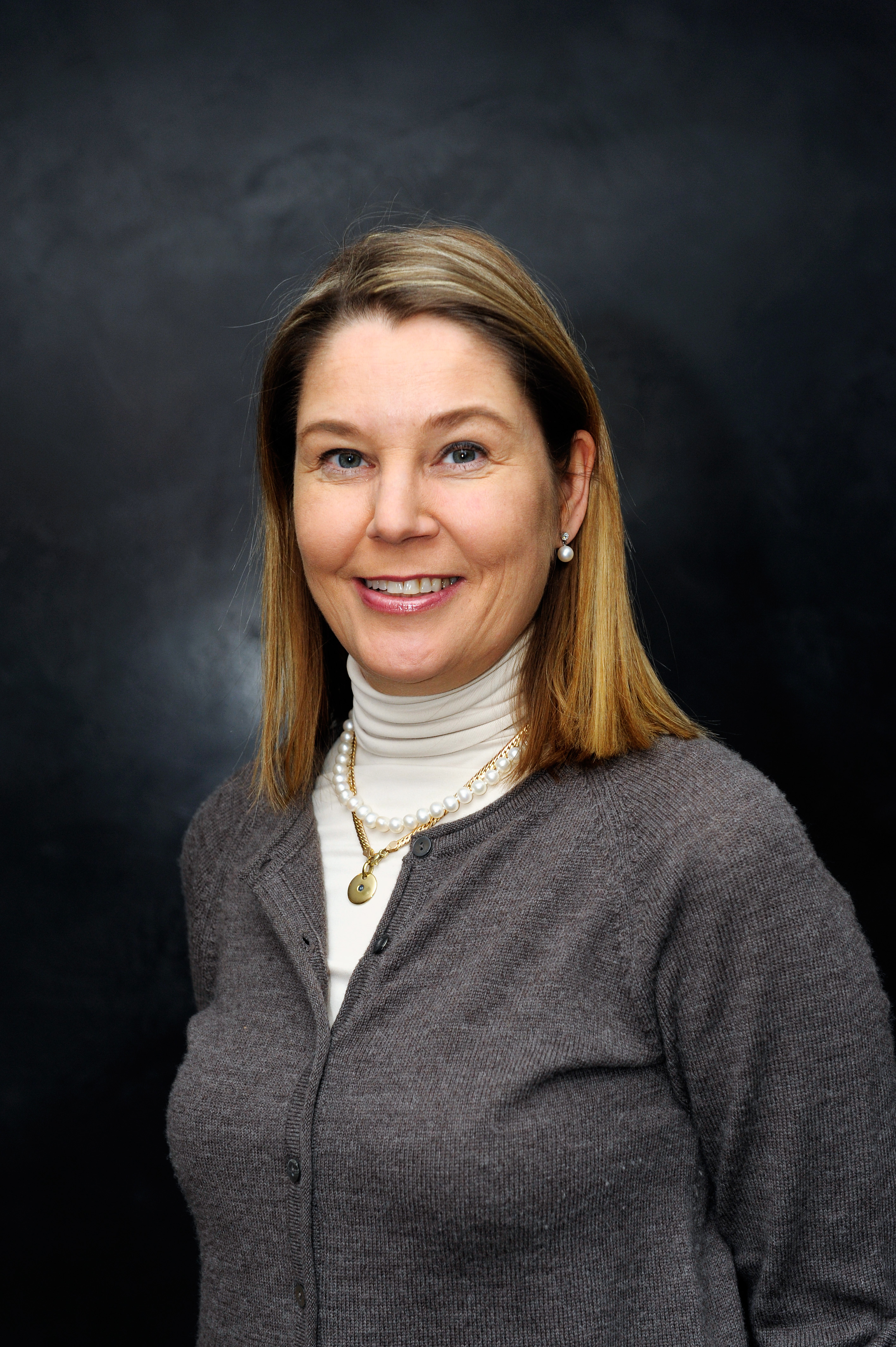 Ulla Karvo, Finnish politician (National Coalition Party)